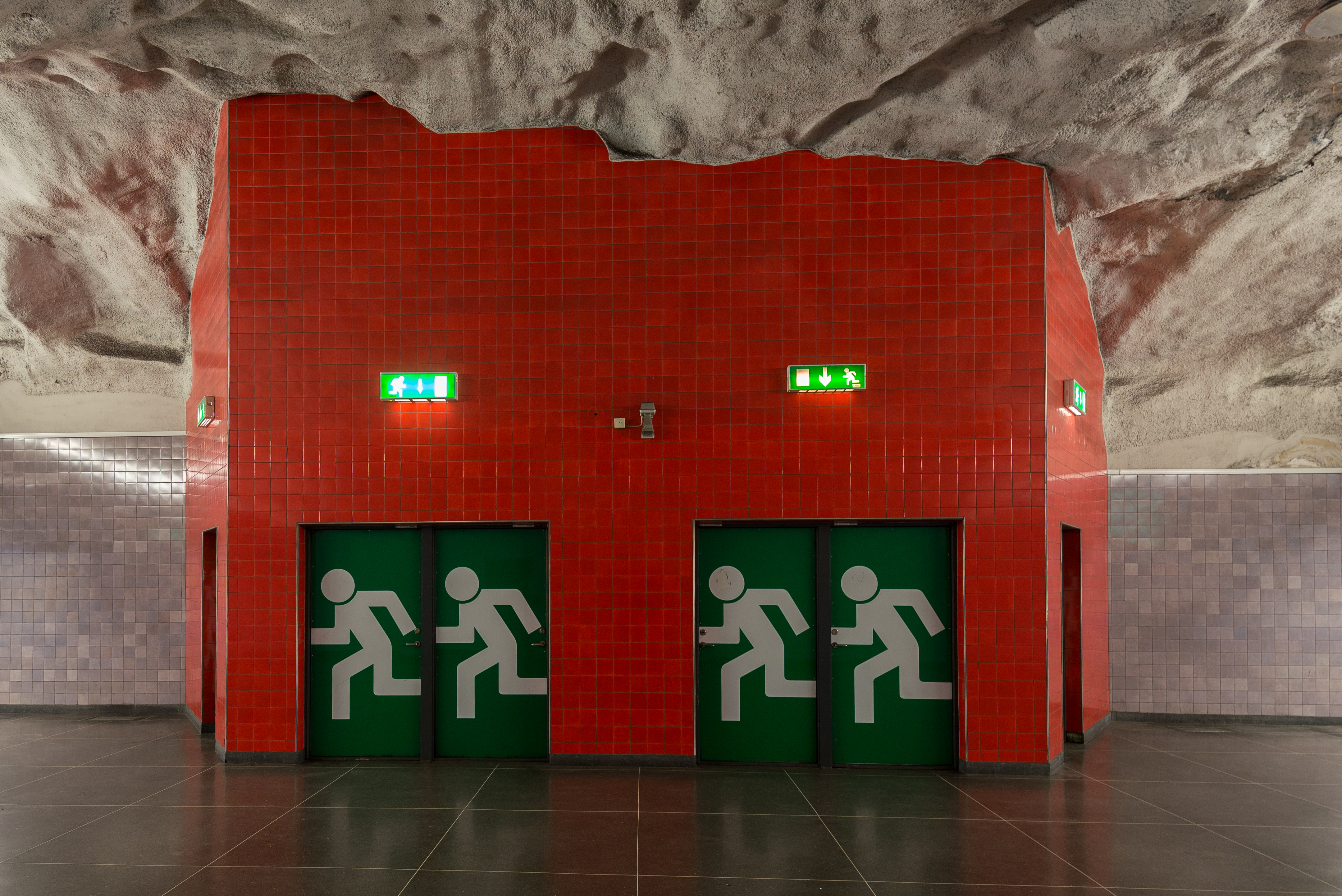 Universitetet metro station, Stockholm.